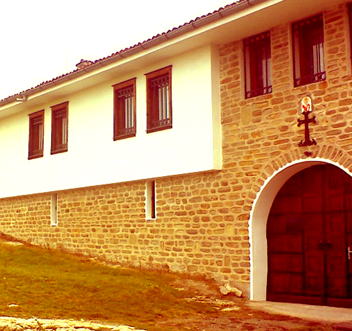 Ortodox Monastery "Saint Atanasii", village Zlatna livada